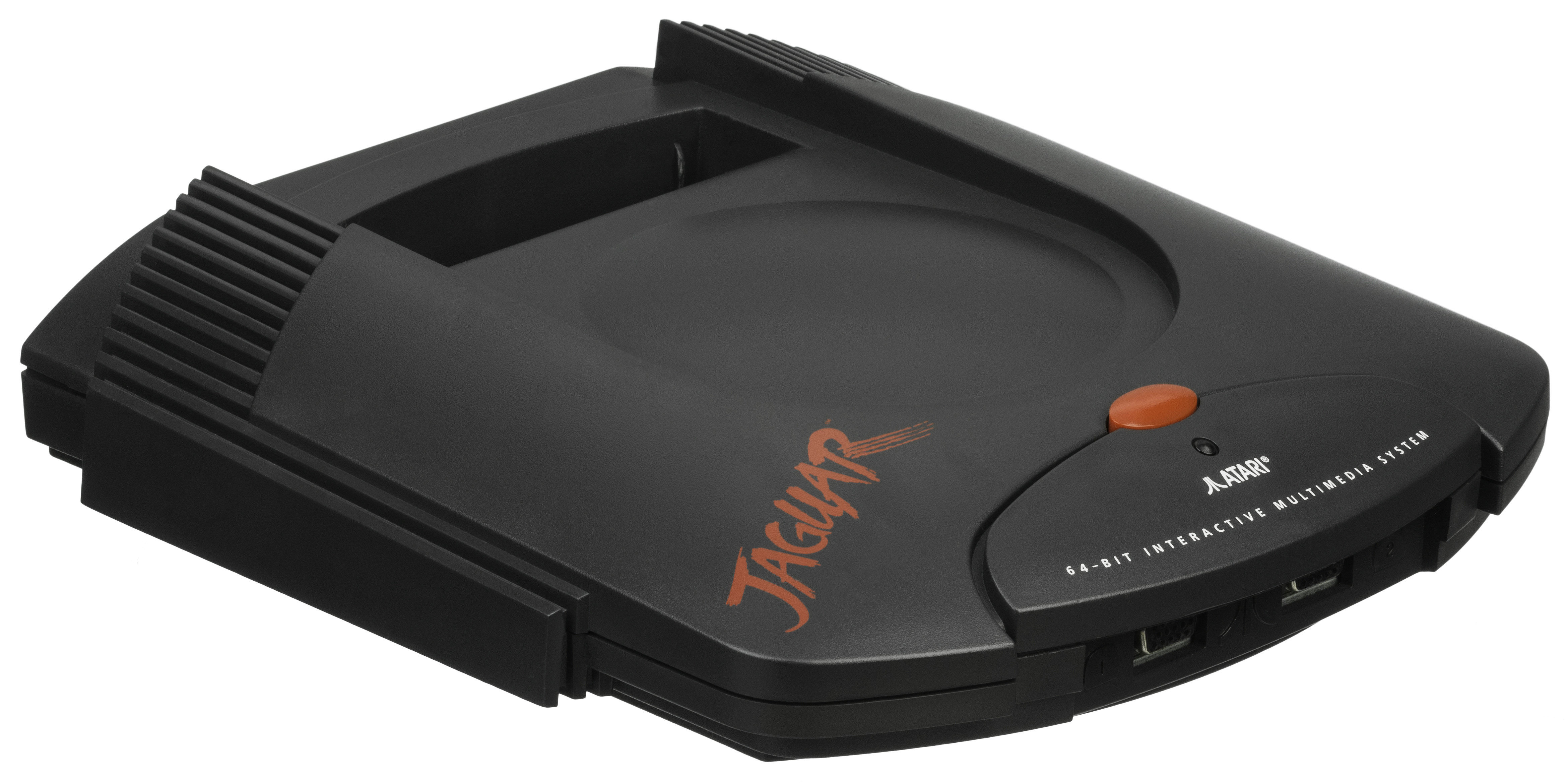 The Atari Jaguar, a home gaming console released by Atari Corp in 1993.